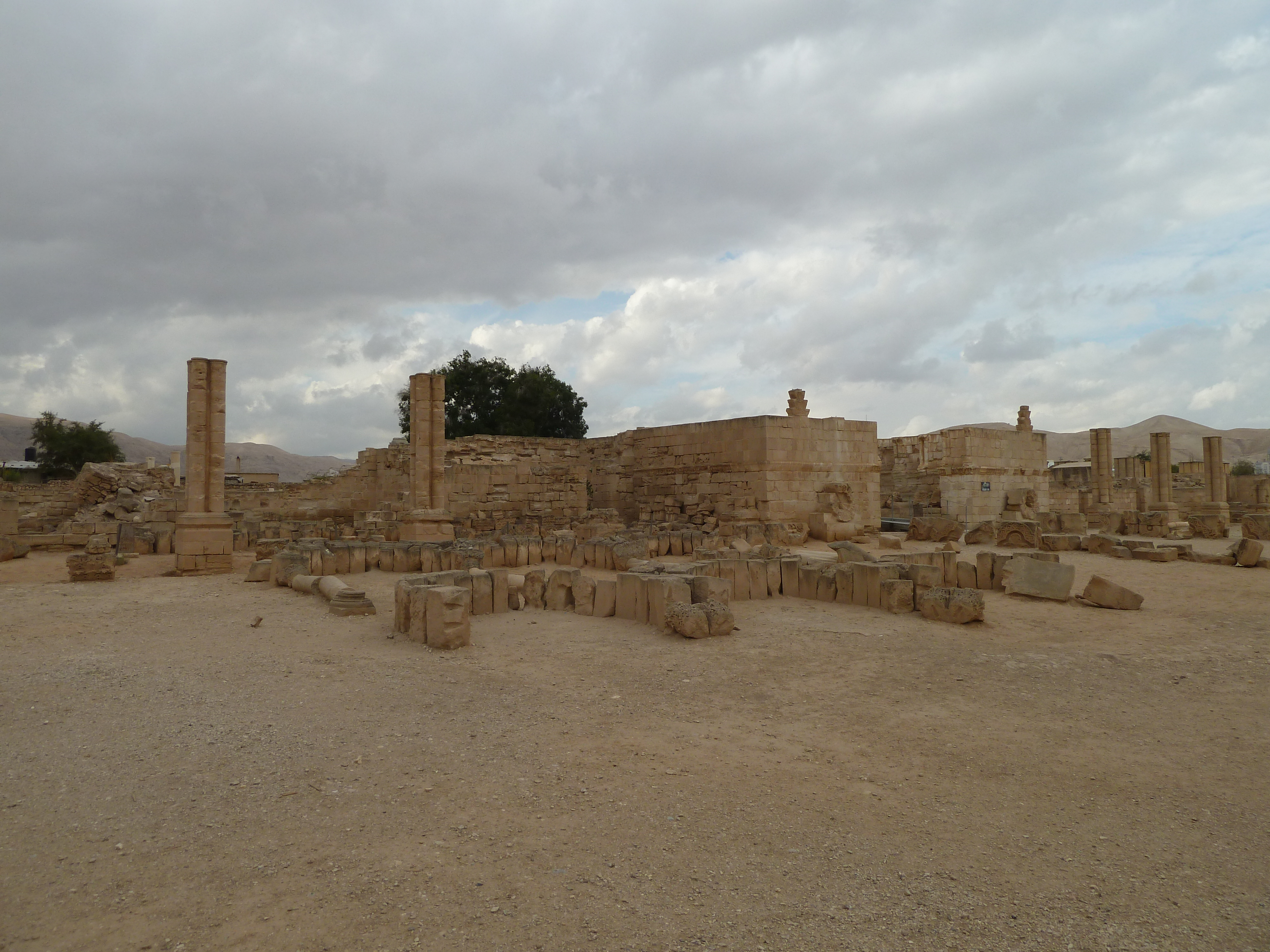 Hisham's Palace on a rainy day, Jericho